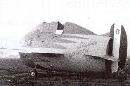 Caproni Stipa experimental aircraft